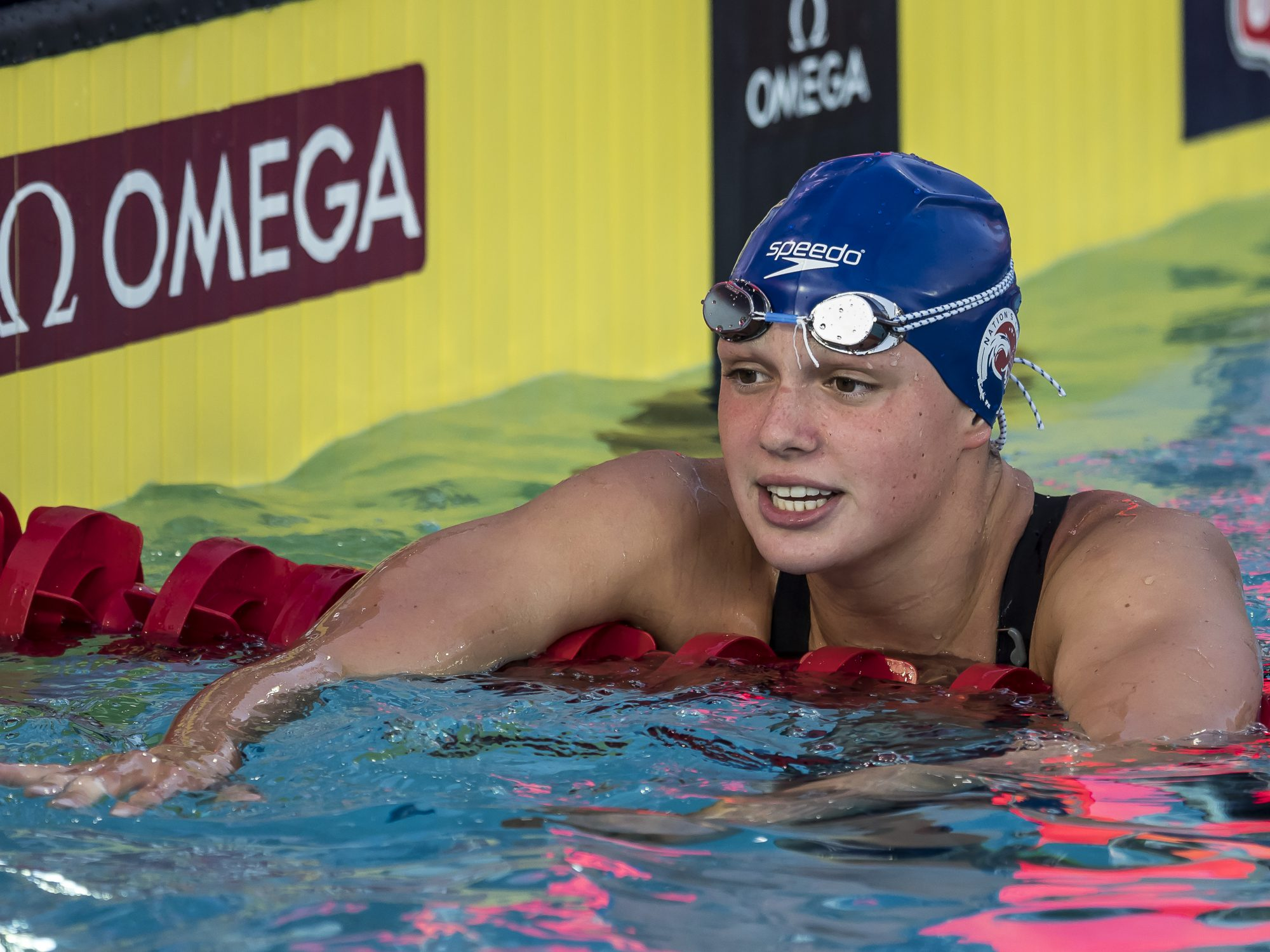 Phoebe Bacon leans on the lane line after her 100 back